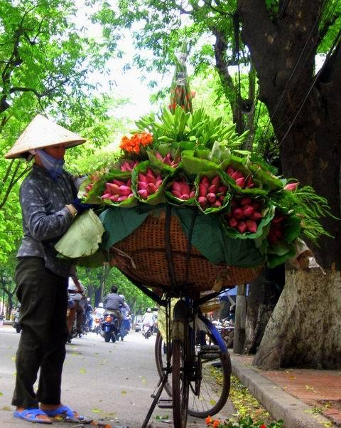 Selling lotus flowers in the street, Hanoi